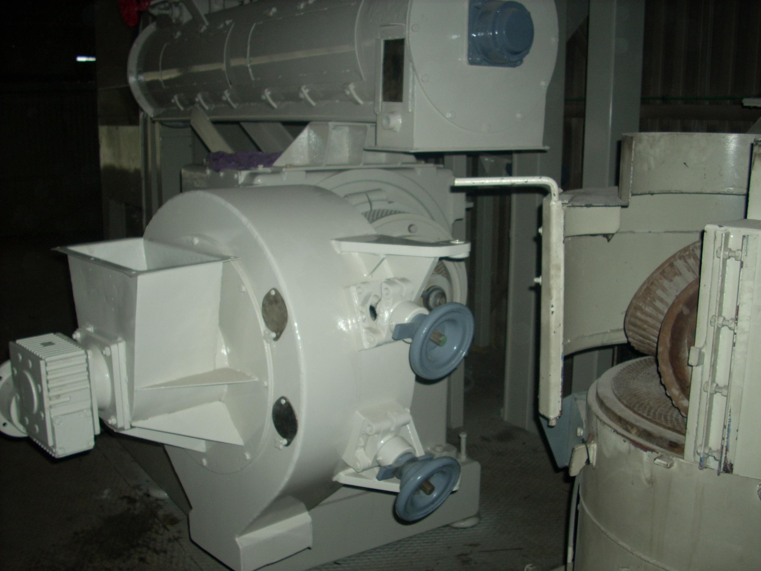 A flat die pellet mill on the right and a ring die pellet mill on the left, both used for animal feed manufacturing